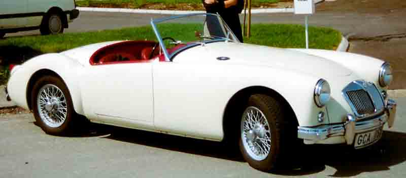 M.G. MGA 2-Seater Sports